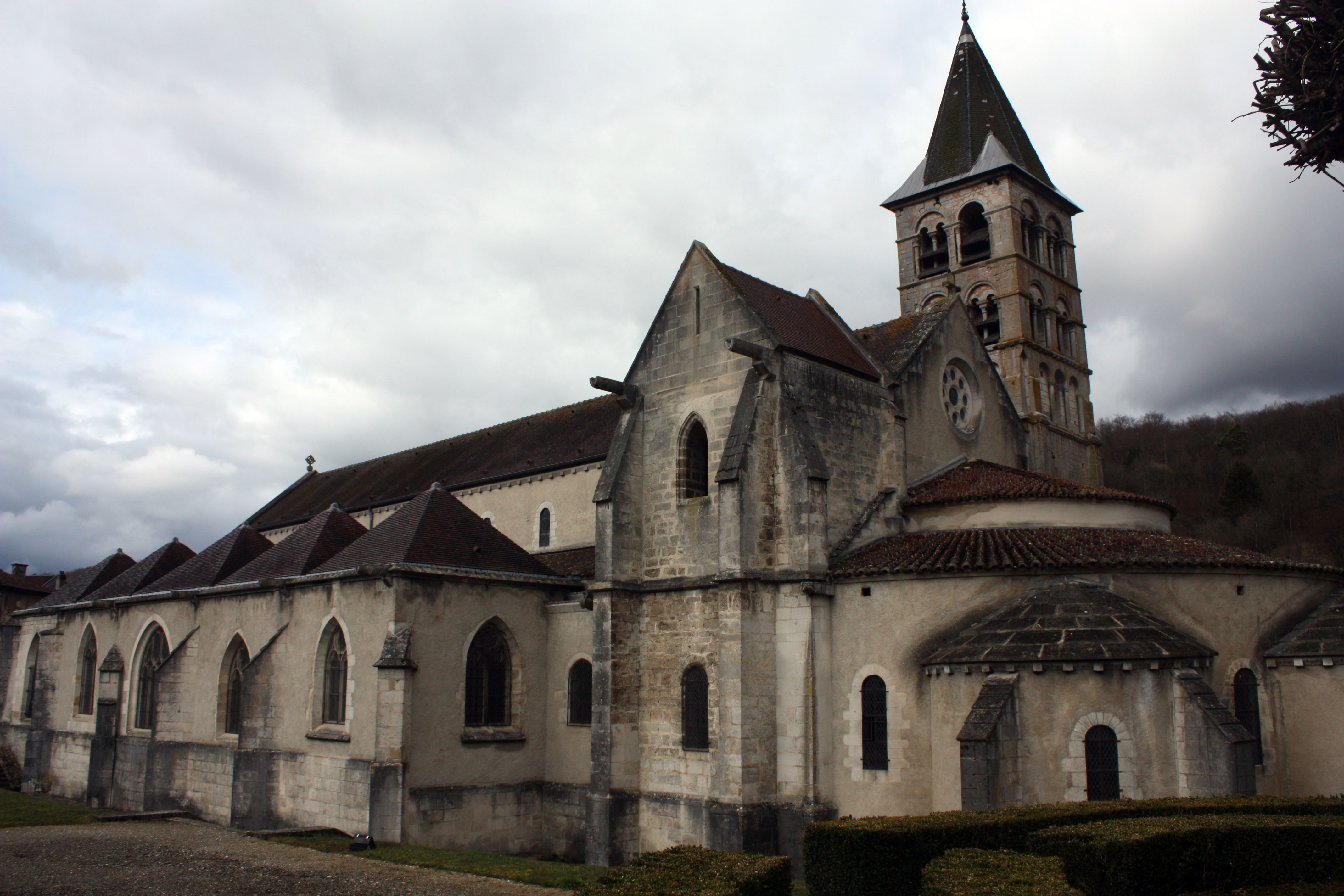 St. Stephan's Church, view from the garden.